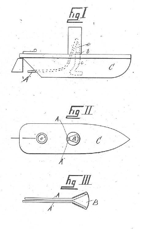 Diagram of a pop pop boat, from Thomas Piot's 1891 patent.